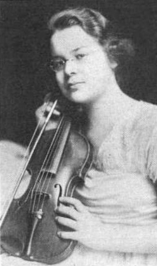 A young white woman wearing glasses, holding a violin and bow.